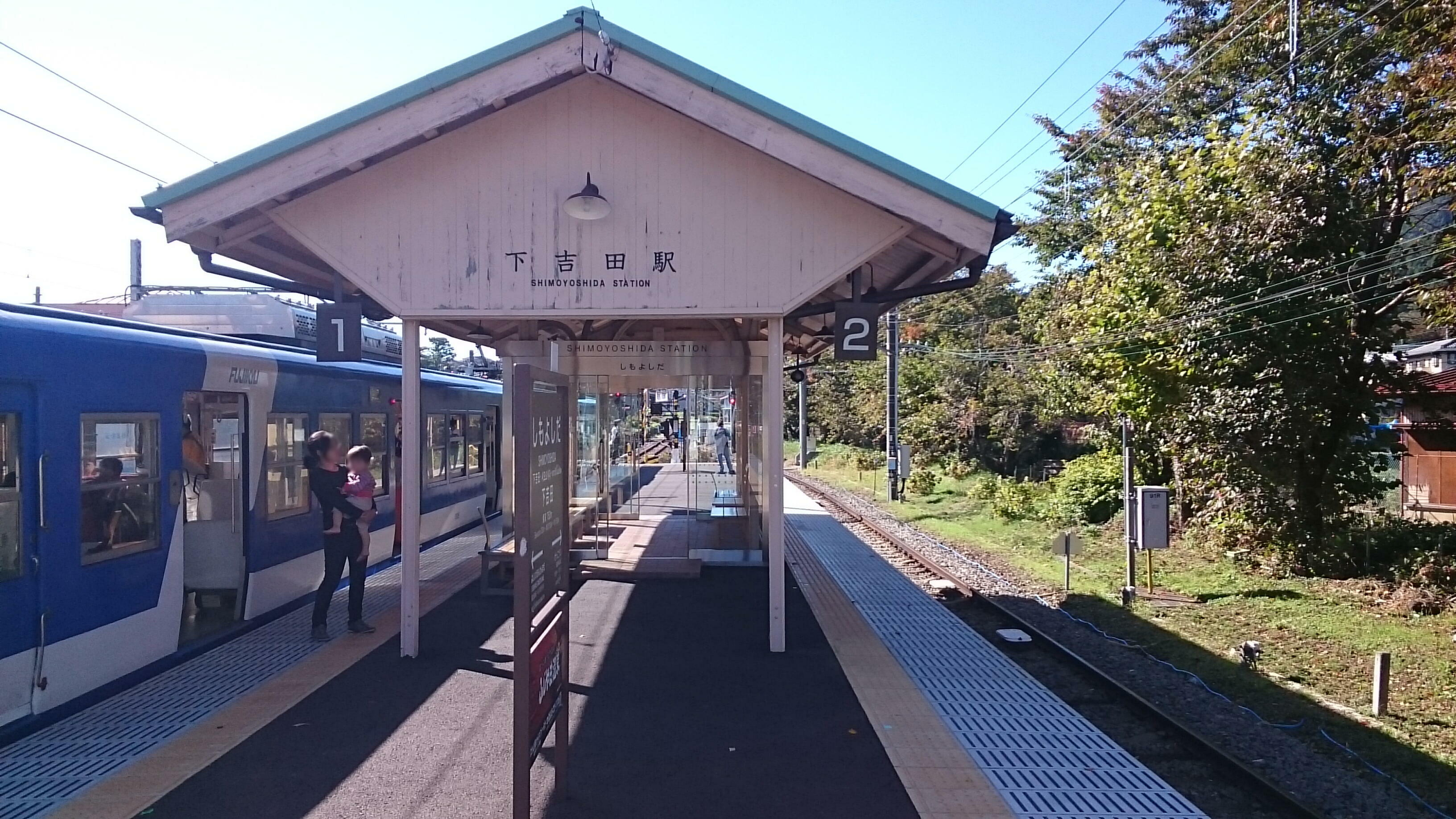 The platform at Fujikyuko Shimoyoshida Station on the Ōtsuki Line in Fujiyoshida, Yamanashi, Japan